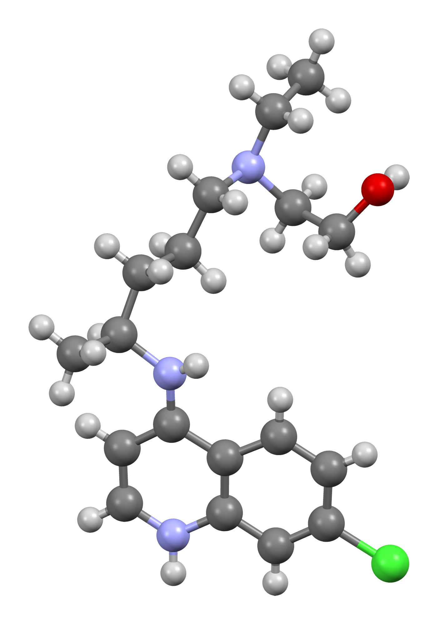 Ball-and-stick model of a hydroxychloroquine molecule, C18H26ClN3O, based on the structure of the protonated molecule found in the crystal structure of hydroxychloroquine sulfate, reported in J. Chem. Crystallogr. (2008) 38, 333 (CSD Entry: QOBHUL01). The sulfate ion and the proton attached to the basic amine nitrogen atom have been removed to show an estimate of the structure of the free base. Colour code: Carbon, C: grey Hydrogen, H: white Nitrogen, N: blue Oxygen, O: red Chlorine, Cl: green Model manipulated and image generated in CCDC Mercury 3.8.